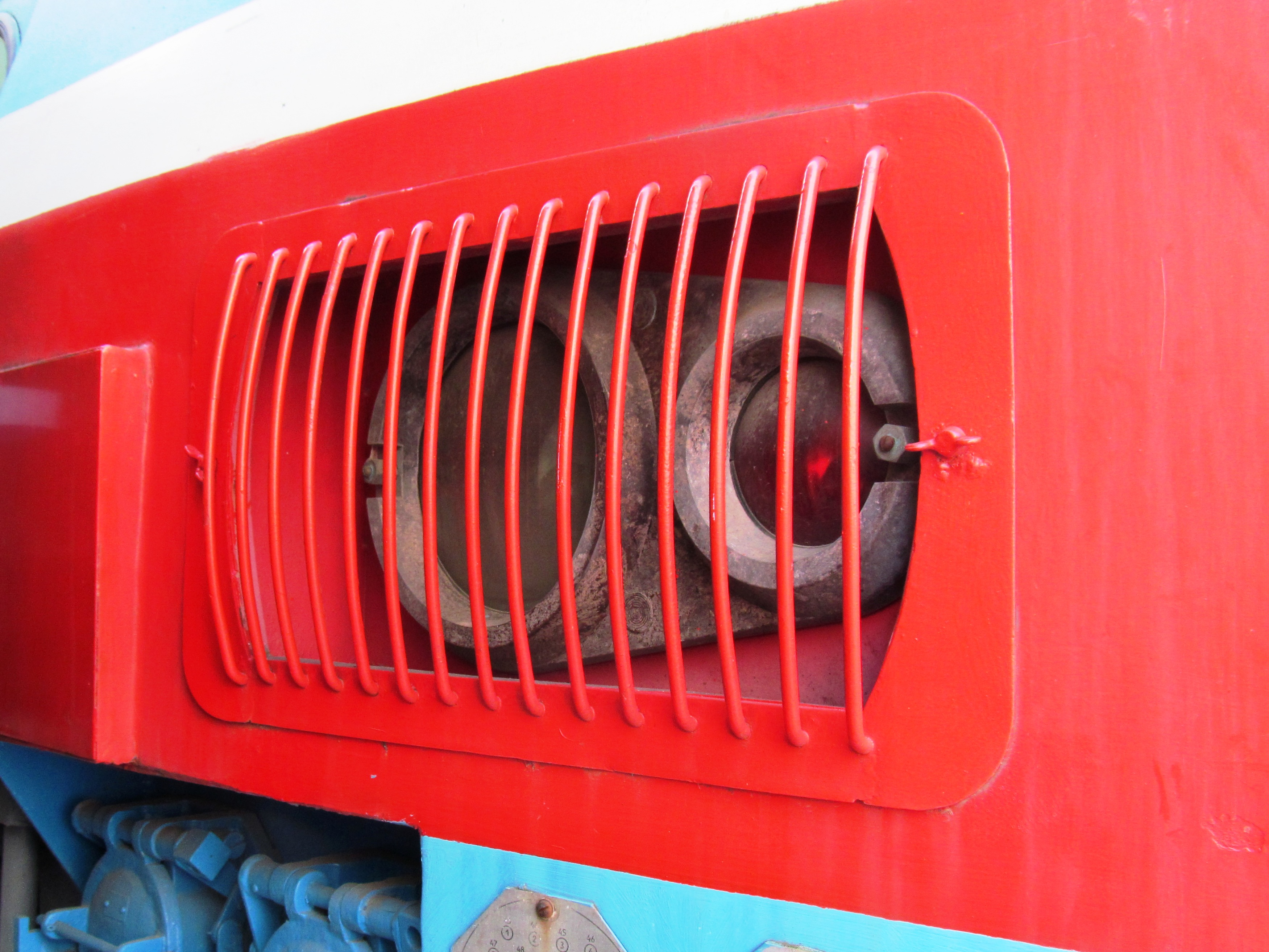 EMU EN3 buffer lights block (car EN3-001.05, Rostov Museum of railway equipment)